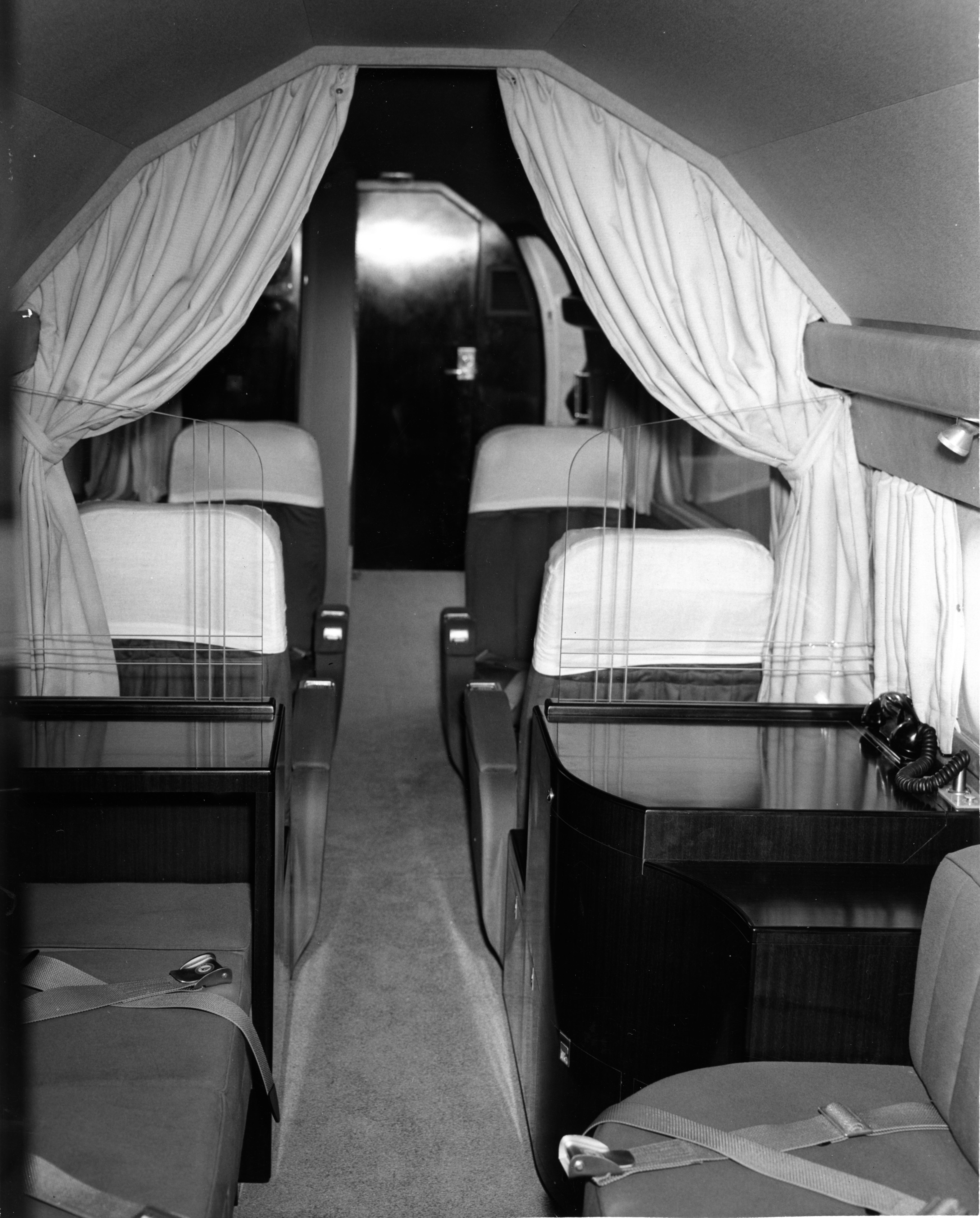 Image from the Dohm-Zweng Collection Repository: San Diego Air and Space Museum